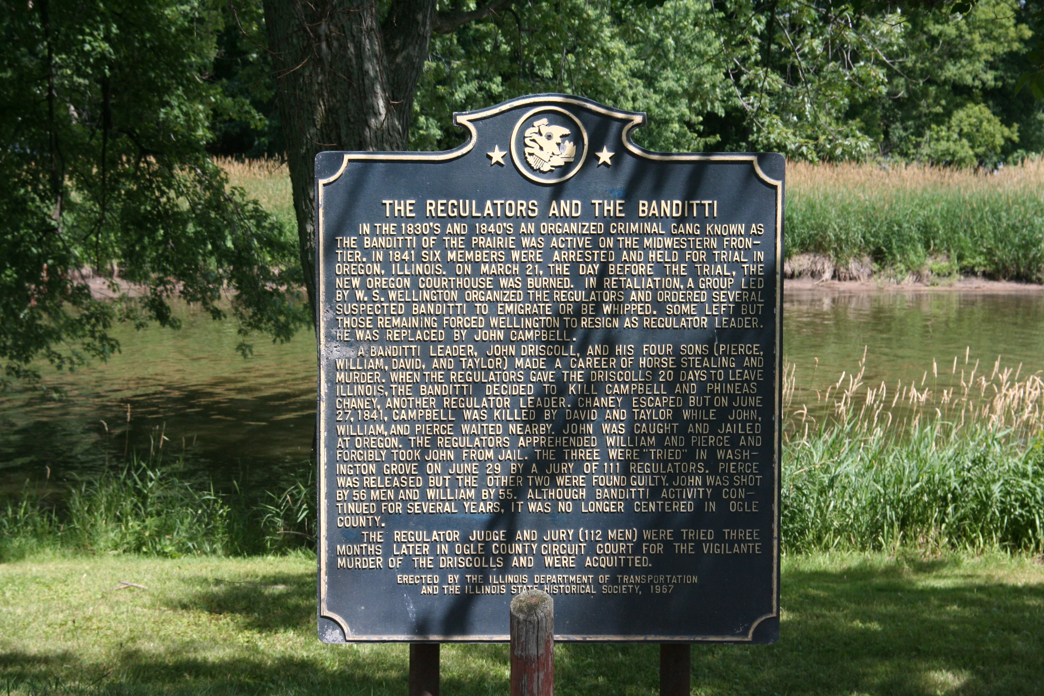 Historical marker for the Banditti along Rt. 2 closer to Byron, Illinois, USA in Rockvale Township.